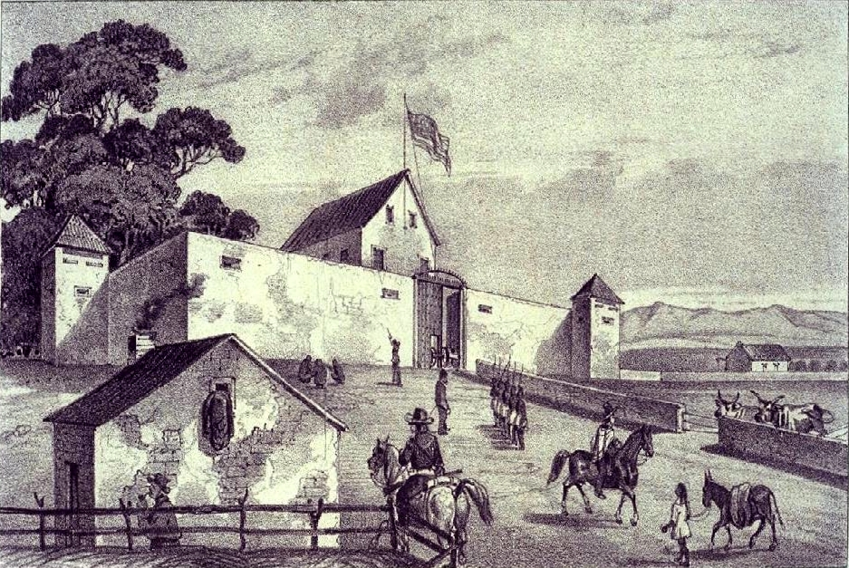 Sutter's Fort -- New Helvetia, ca. 1849